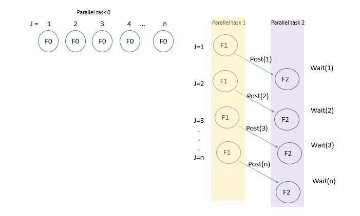 This diagram depicts the execution timeline for the above pseudocode.